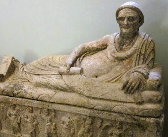 The "Sarcophagus of the magistrate", an Etruscan sarcophagus from ancient Tarquinia. Now in the national museum of Tarquinia. Inscription: 1. LRIS · PULENAS · LARCES · CLAN · LARTHAL · PAPACS 2. VELTHURUS · NEFTS · PRUMTS · PULES · LARISAL · CREICES 3. AN CN · ZICH · NETHŚRAC · ACASCE · CREALS · TARCHNALTH · SPU 4. RENI · LUCAIRCE · IPA RUTHCVA · CATHAS · HERMERI · SLICACHEŚ 5. APRINTHVALE LUTHCVA · CATHAS · PACHANAC · ALUMNATHE · HERMU · 6. MELECRATICCES · PUTS · CHIM · CULSL · LEPRNAL · PŚL · VARCHTI · CERINE · PUL 7. ALUMNATH · PUL · HERMU · HUZRNATRE · PŚL · TEN...X · XX...CI · METHLUMT · PUL · 8. HERMU · THUTUITHI · MLUSNA · RANVIS · MLAMNA ... MNATHURAS · PAR 9. NICH · AMCE · LEŚE · HRMRIER